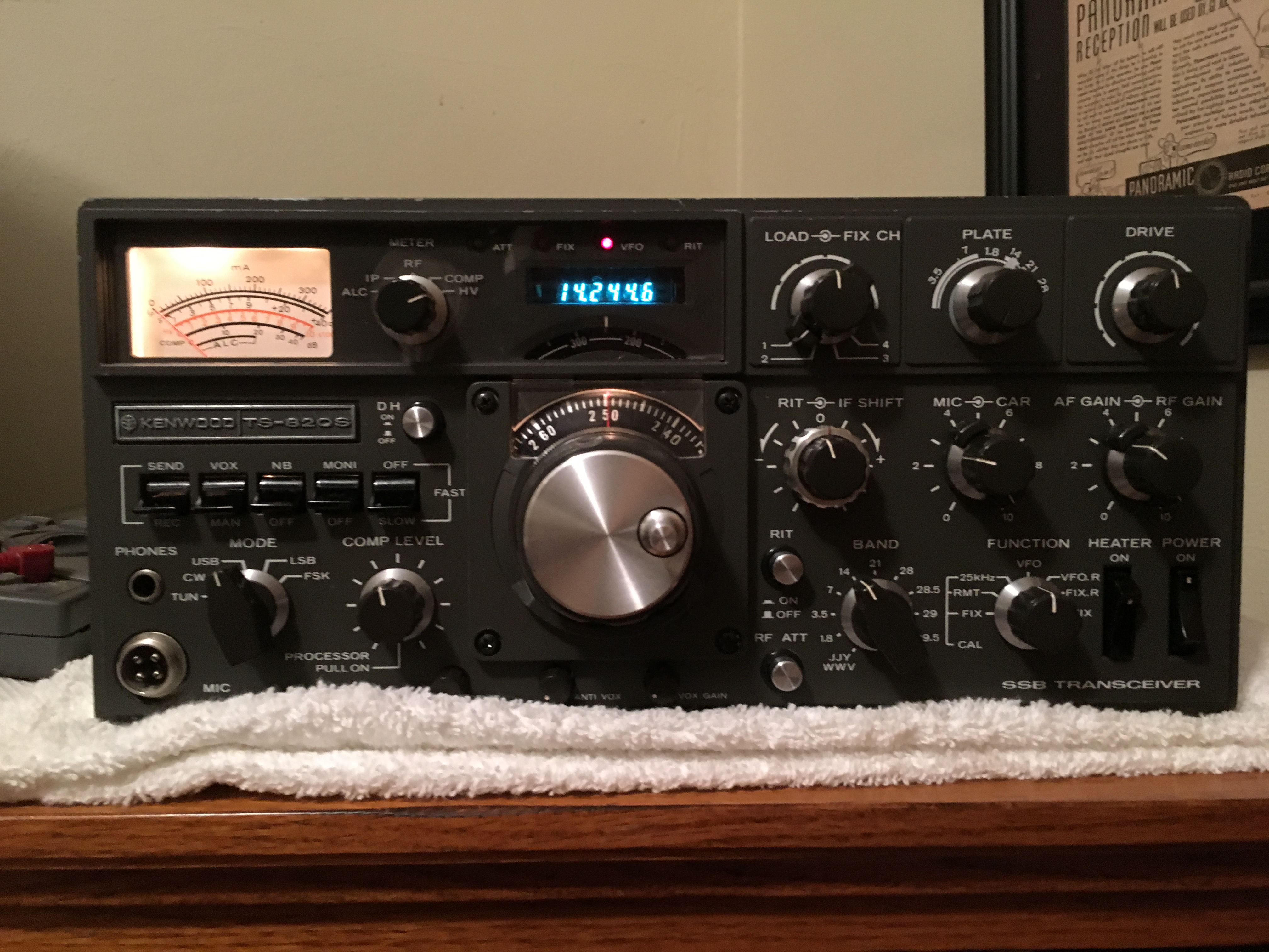 An image of the Kenwood TS-820S amateur radio transceiver.